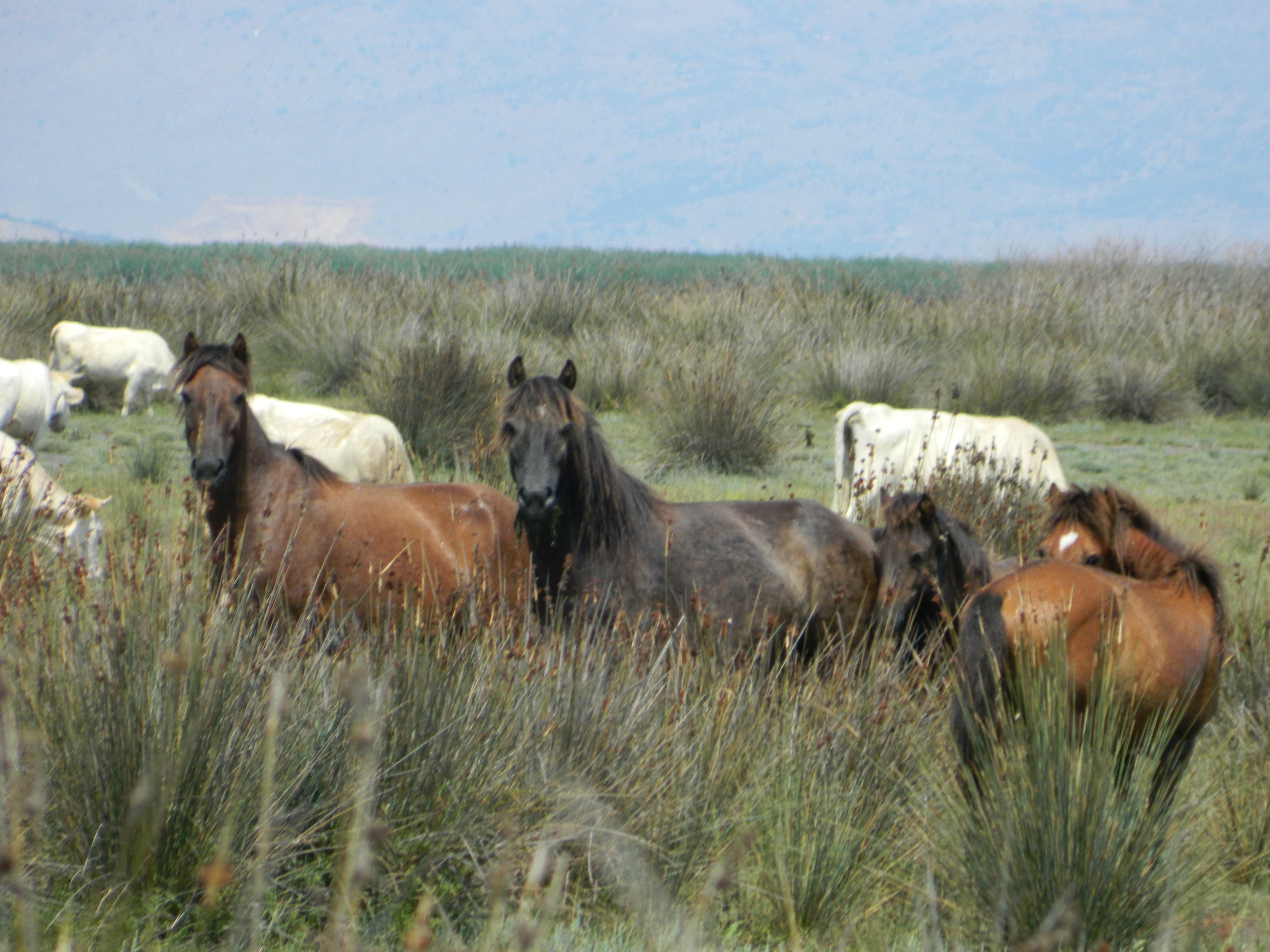 This is a photography of Natura 2000 protected area with ID GR2310001